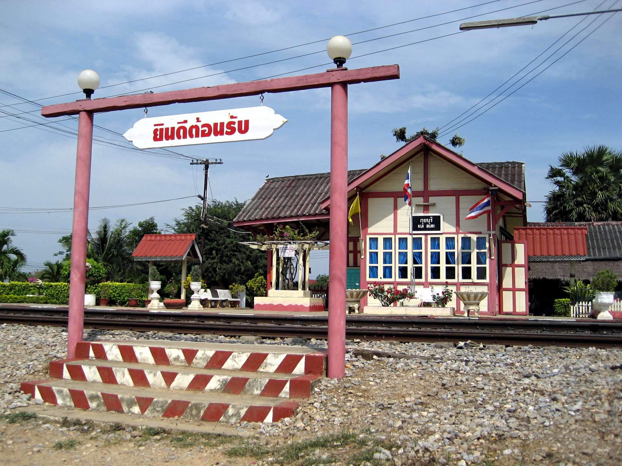 The railway station in Kui Buri district, Prachuap Khiri Khan province in the southern part of central Thailand.